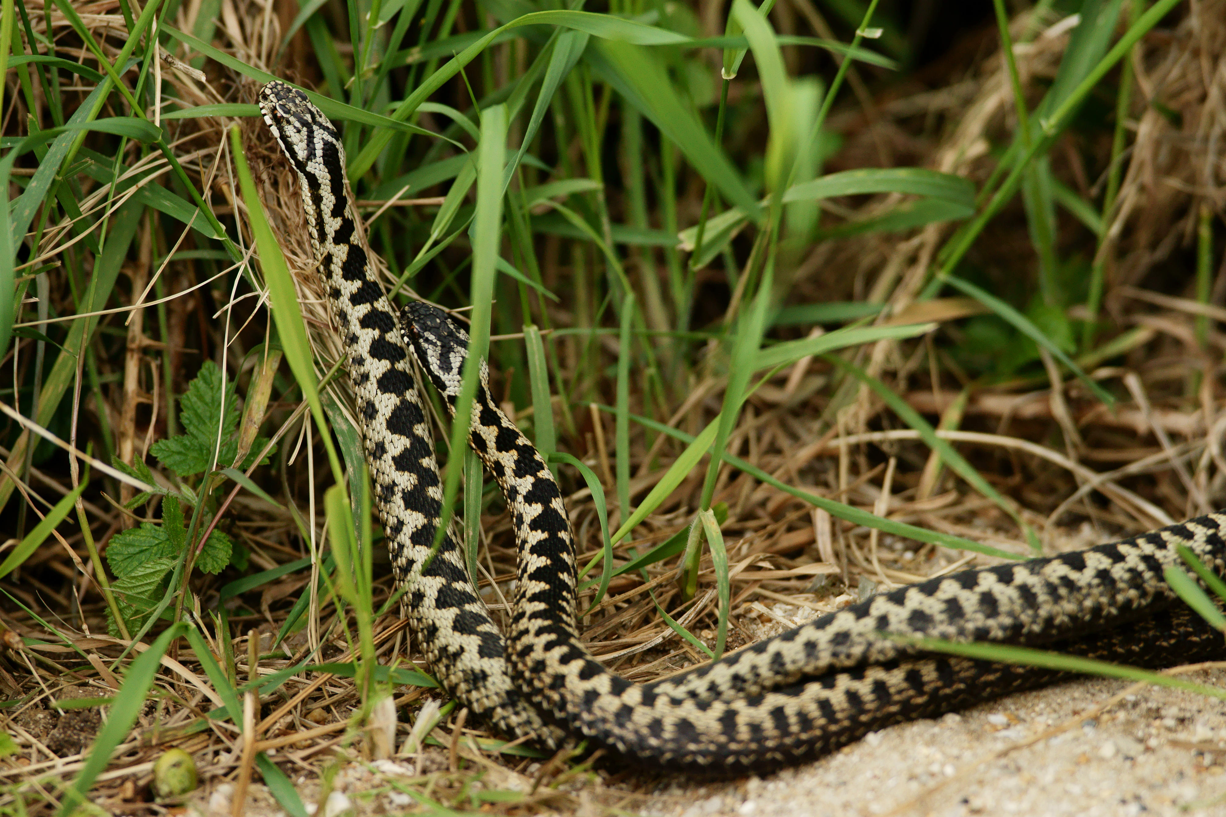 Seen at the British Wildlife Centre, Newchapel, Surrey. Male adders 'dance'.